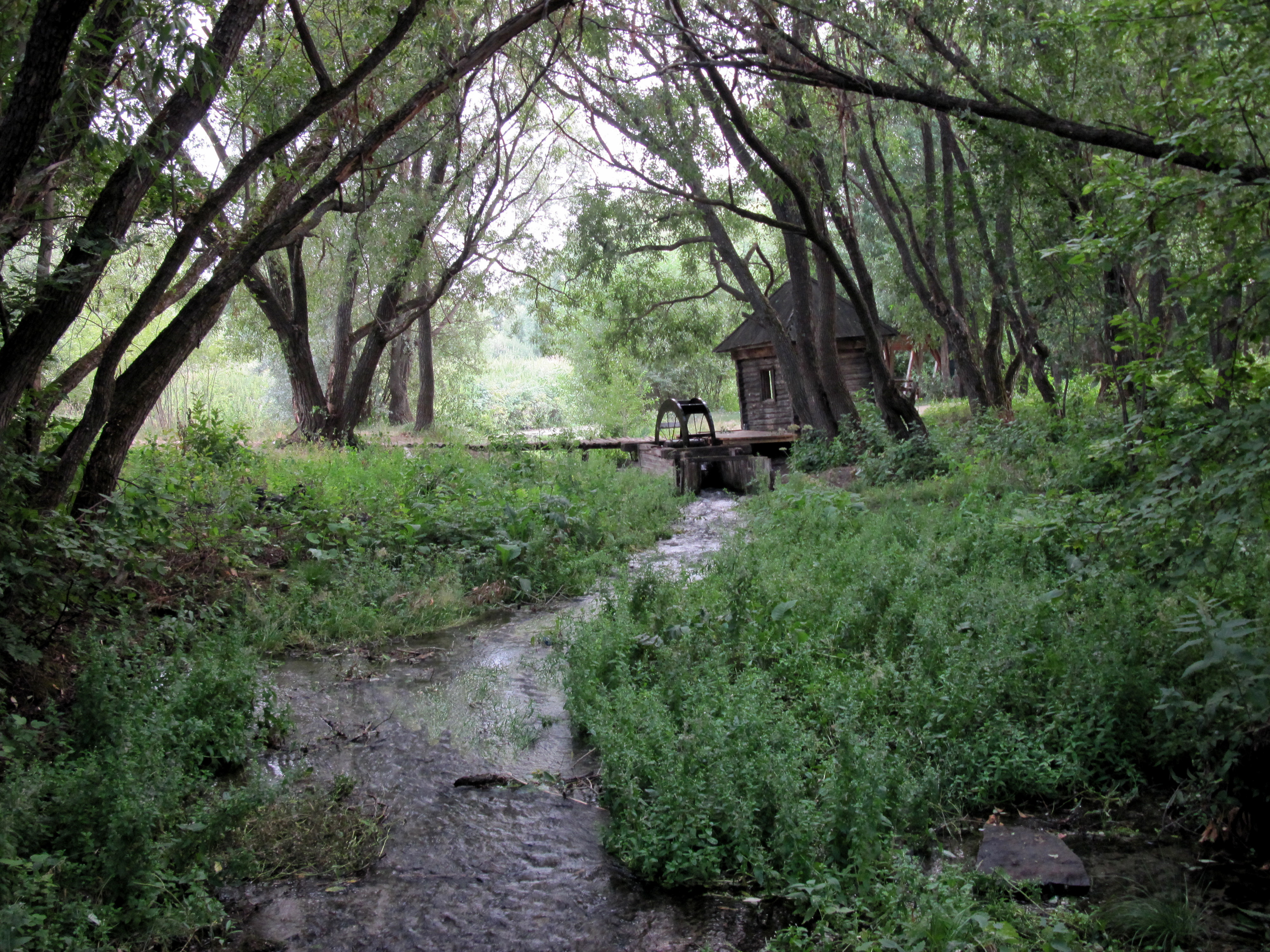 Source of the Khopyor River.